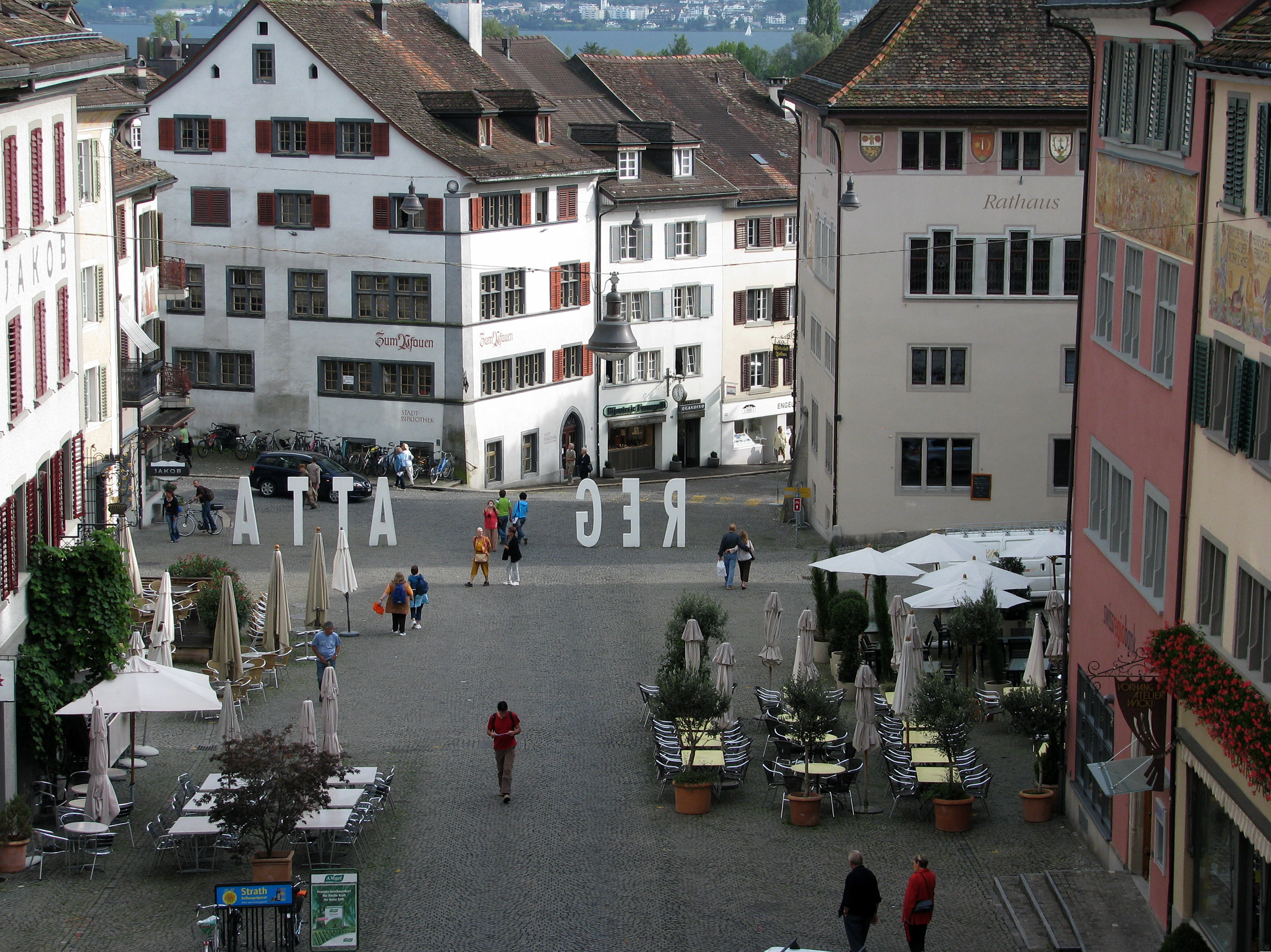 Rapperswil (SG) : Hauptplatz and historical quarter, in the background (to the right) the former Rathaus, as seen from Schloss Rapperswil.